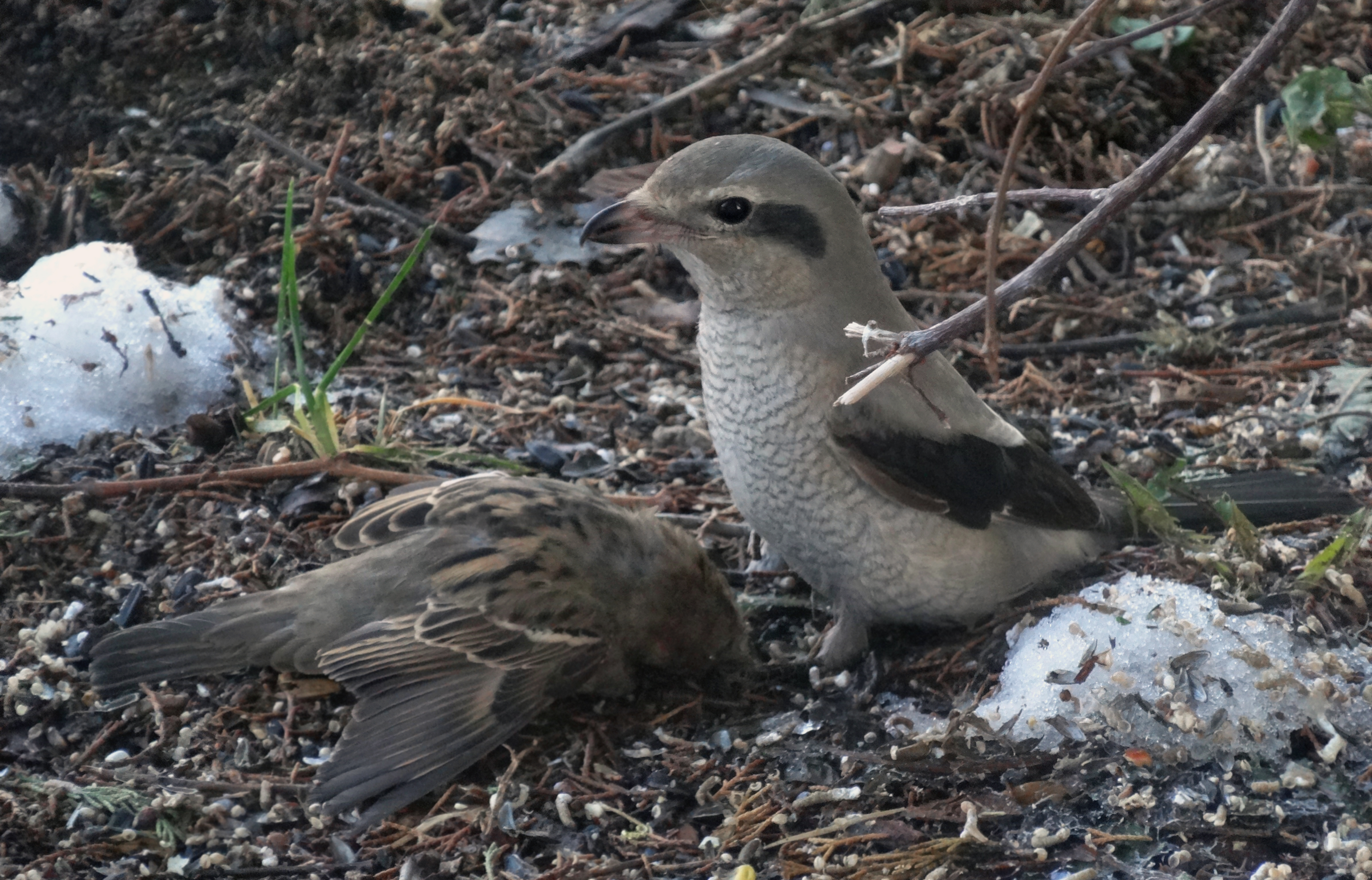 This is a juvenile Northern Shrike Lanius excubitor borealis, seen in Burleigh County, North Dakota. It had just taken down a House Sparrow at my bird feeders and the sparrow's cries are what alerted me to something special happening outside my window. I missed the initial strike, but saw a struggle. The sparrow was dead by the time I got the camera though. Despite their predatory nature, shrikes are songbirds, not raptors. They have a habit of skewering their prey on thorns or barbed wire in order to save it for later, and also as an anchor to help them rip off chunks of flesh.